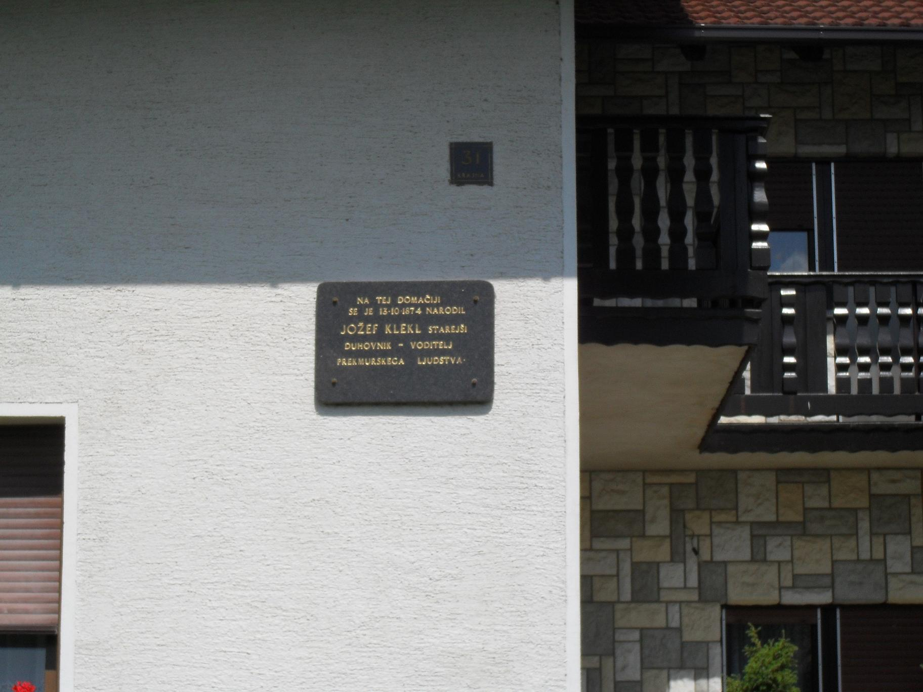 Memorial tablet of József Klekl the Old in Krajna. Here was stand his house of birth.